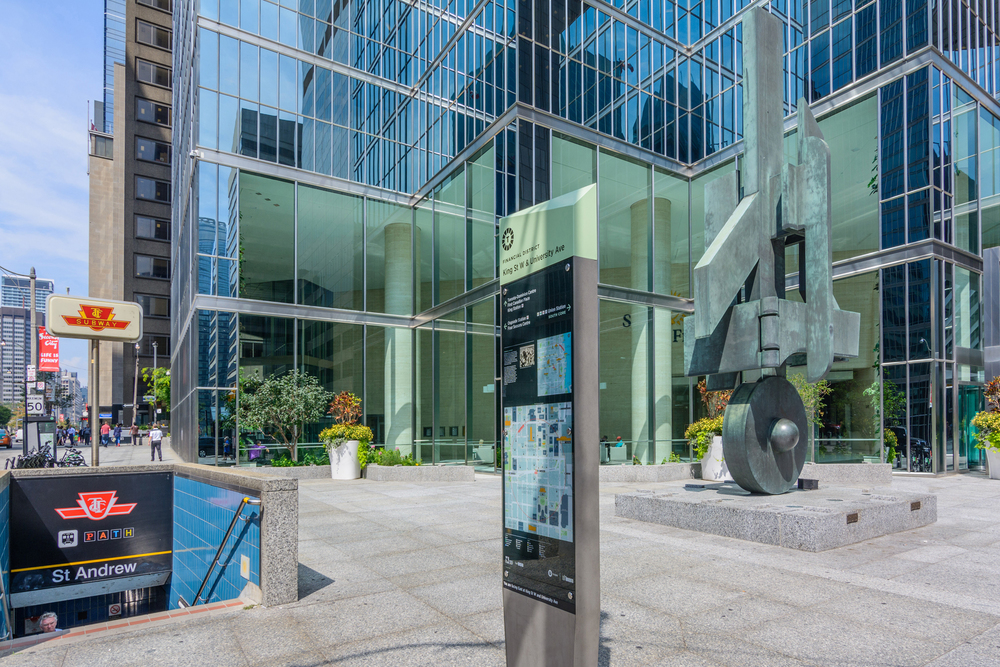 Outside 150 King Street West, still known to many as the Sun Life Centre